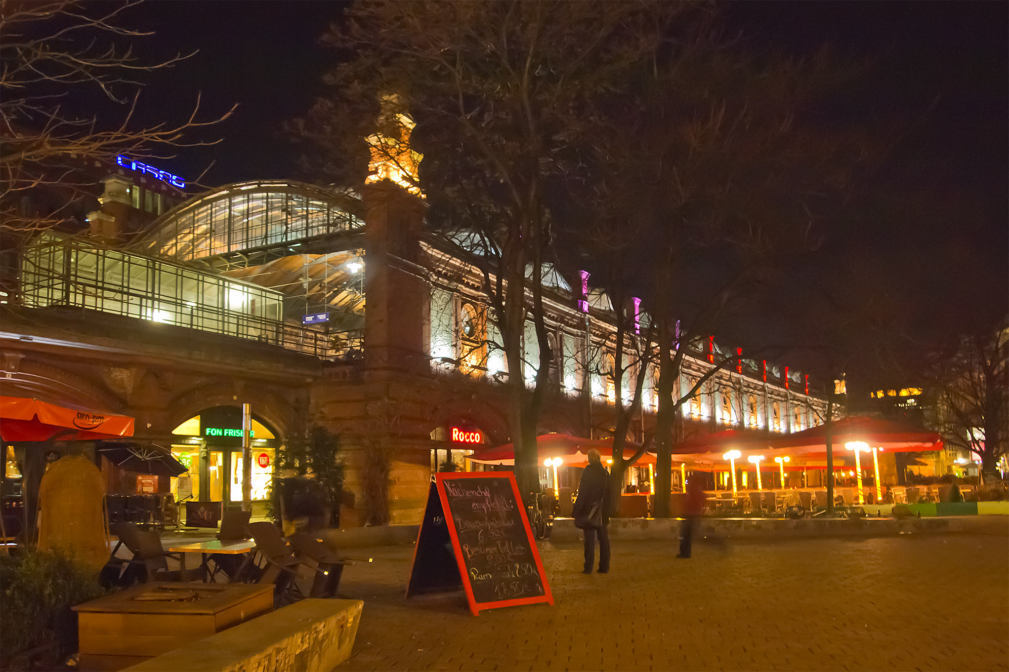 S-Bahn Hackescher Markt station in Berlin MitteThis is a photograph of an architectural monument.